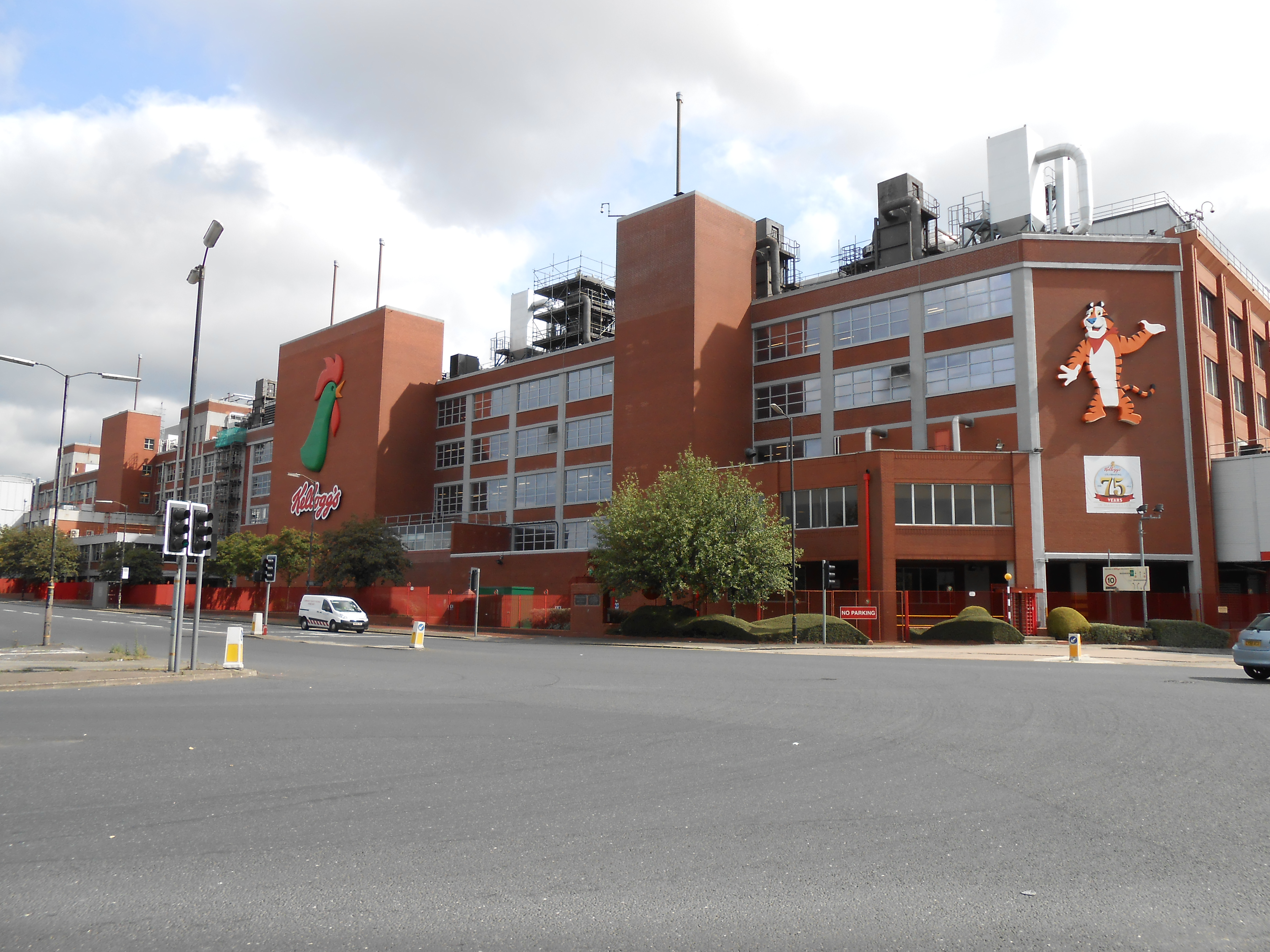 Photo taken at the Trafford Park Kellog's plant, Greater Manchester, England.